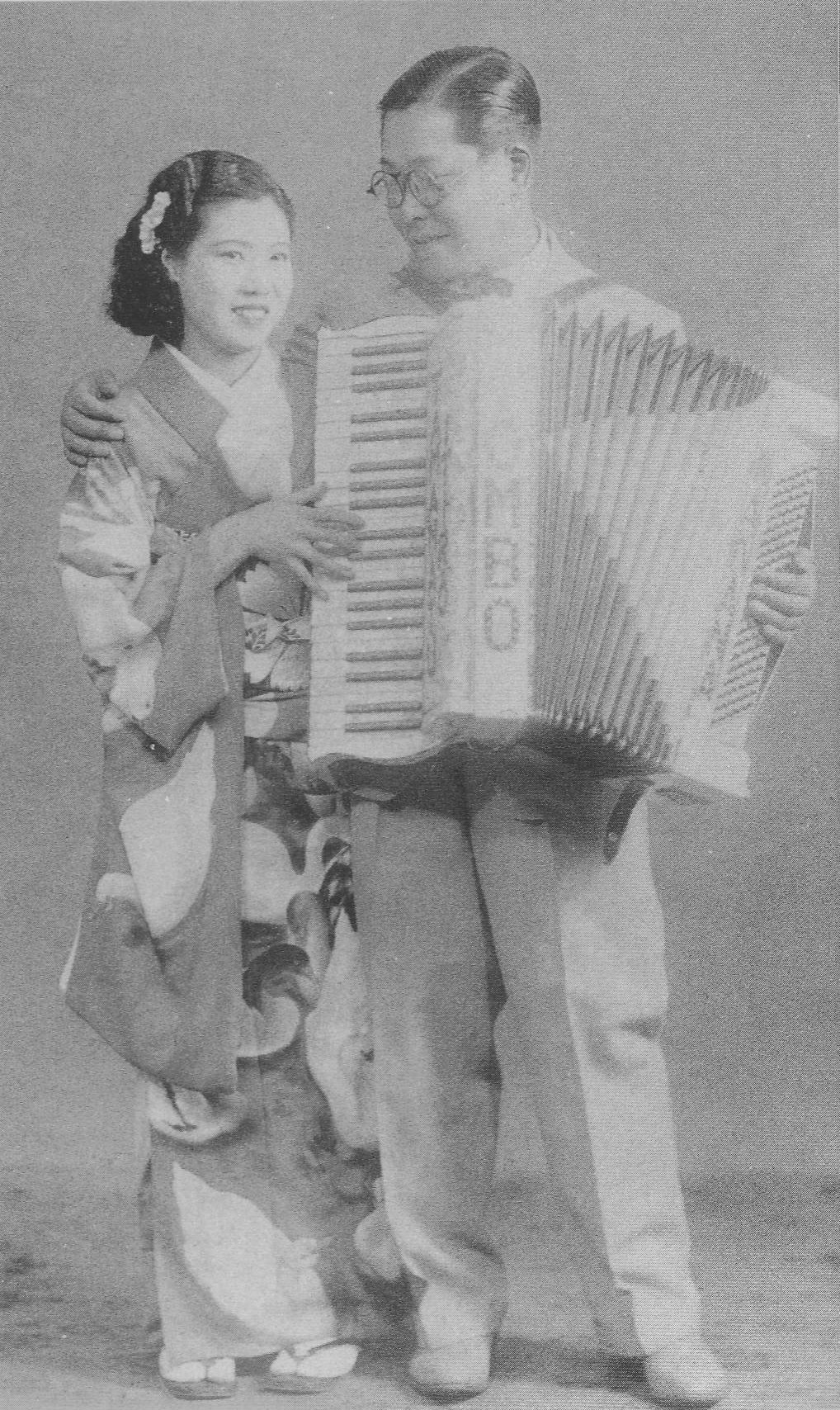 Miss Wakana and Ichiro Tamamatsu (Manzai comedhian).